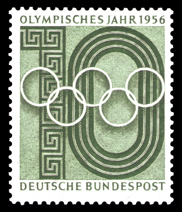 1956, Olympisches Jahr